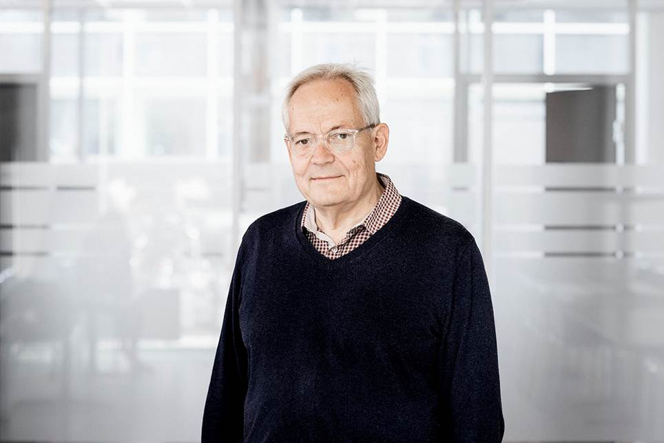 Portrait photo of Albert Gjedde